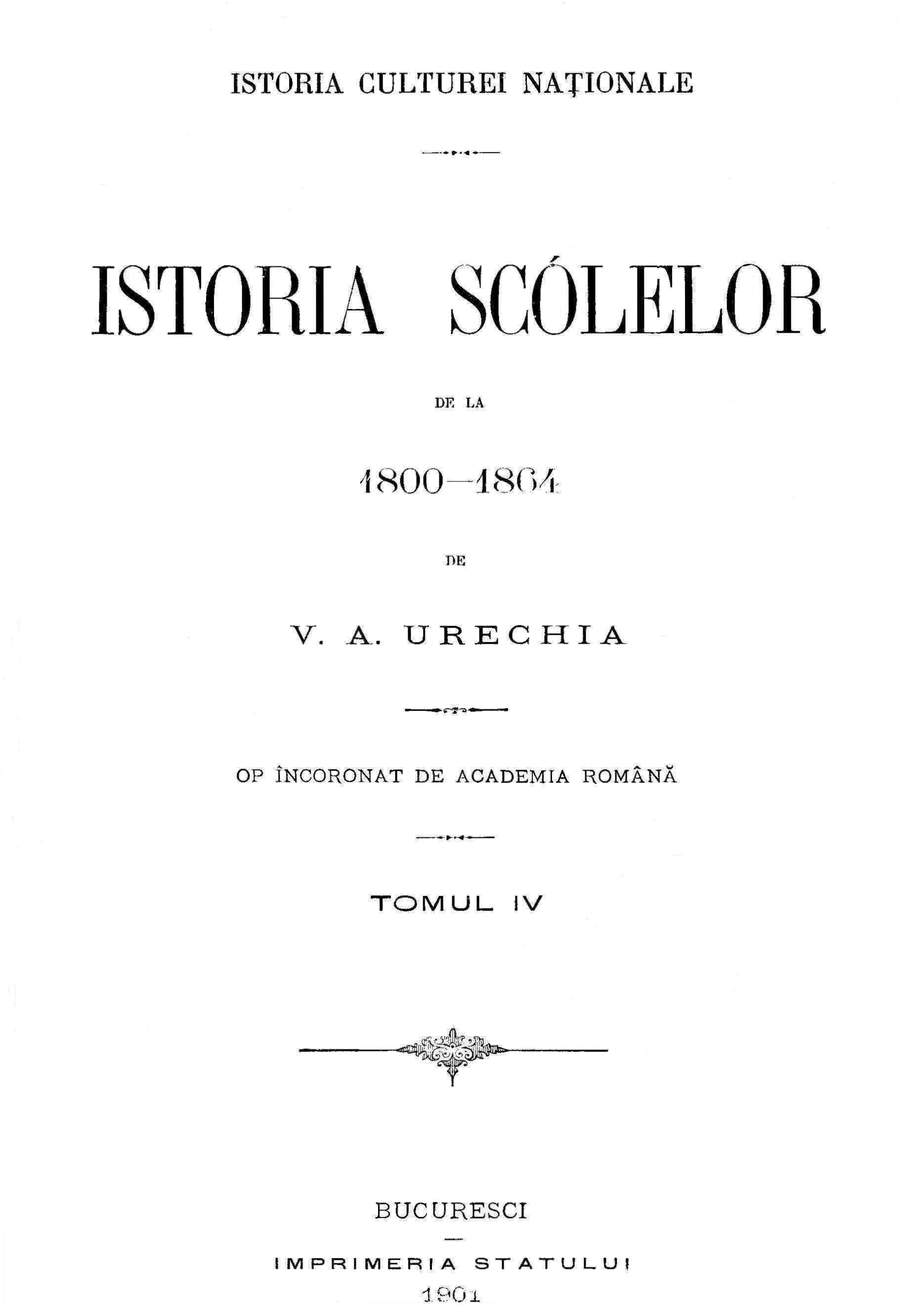 Title page of Istoria Şcolilor, de la 1800-1864, Volume IV, by V. A. Urechia published by Imprimeria Statului, Bucureşti in 1901.